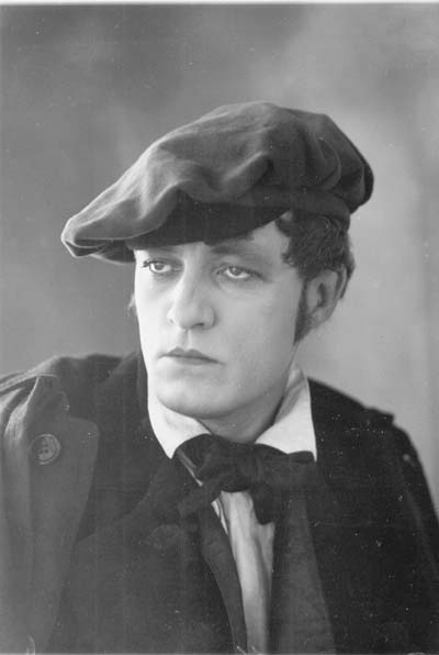 still photo from the 1922 film Hans Gode Genius